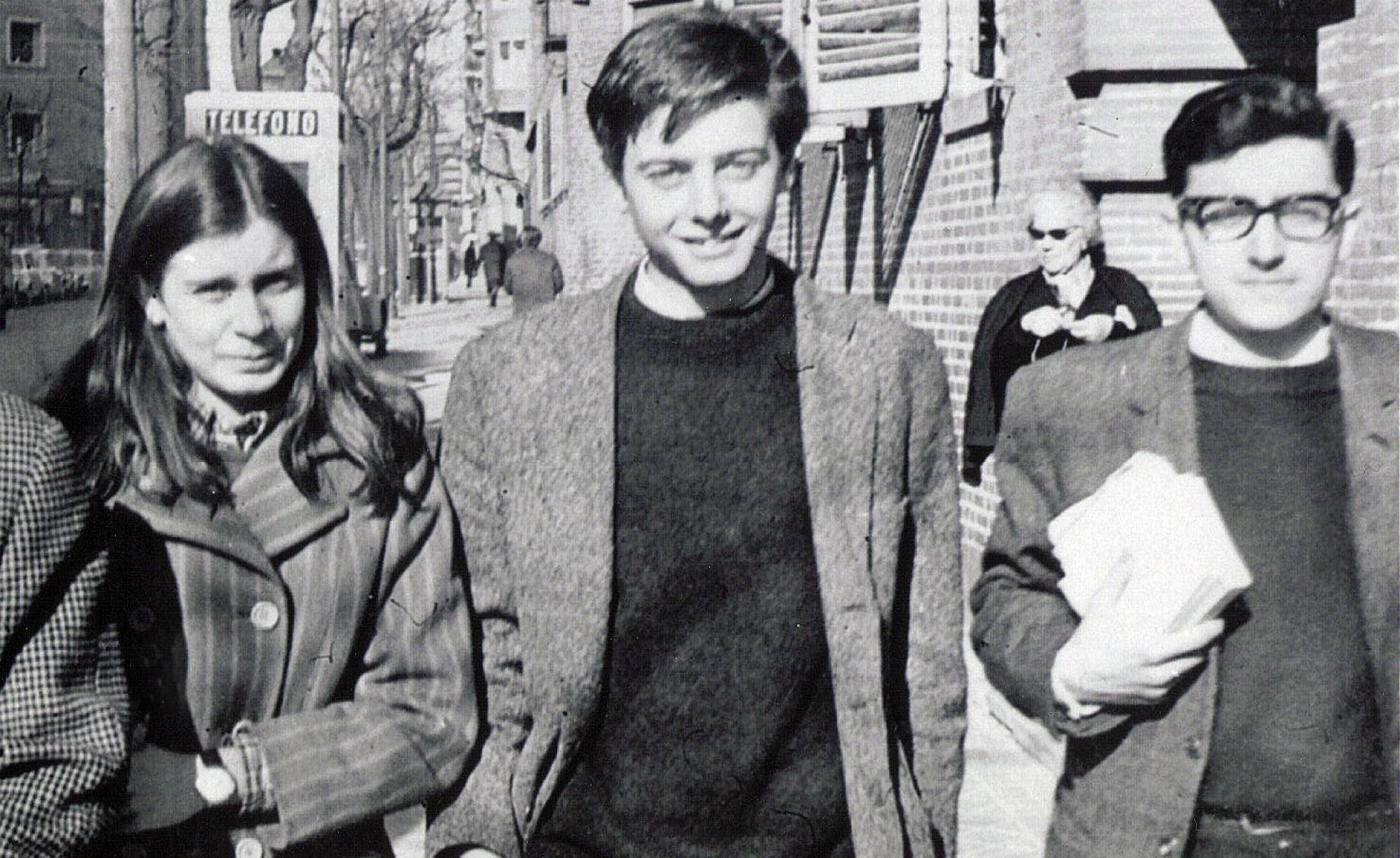 Students Dolores González, Enrique Ruano and Francisco Javier Sauquillo in Madrid around 1968. At the time of the photograph all were university students and active in the Frente de Liberación Popular (FLP), which agitated for the end to the dictatorship in Spain. Dolores González and Enrique Ruano were in a relationship, but he was killed by police in January 1969. By January 1977 González and Sauquillo had married and she was pregnant. However, Sauquillo was shot and killed during the Atocha massacre. González was also shot in the massacre, but survived, however lost her child.